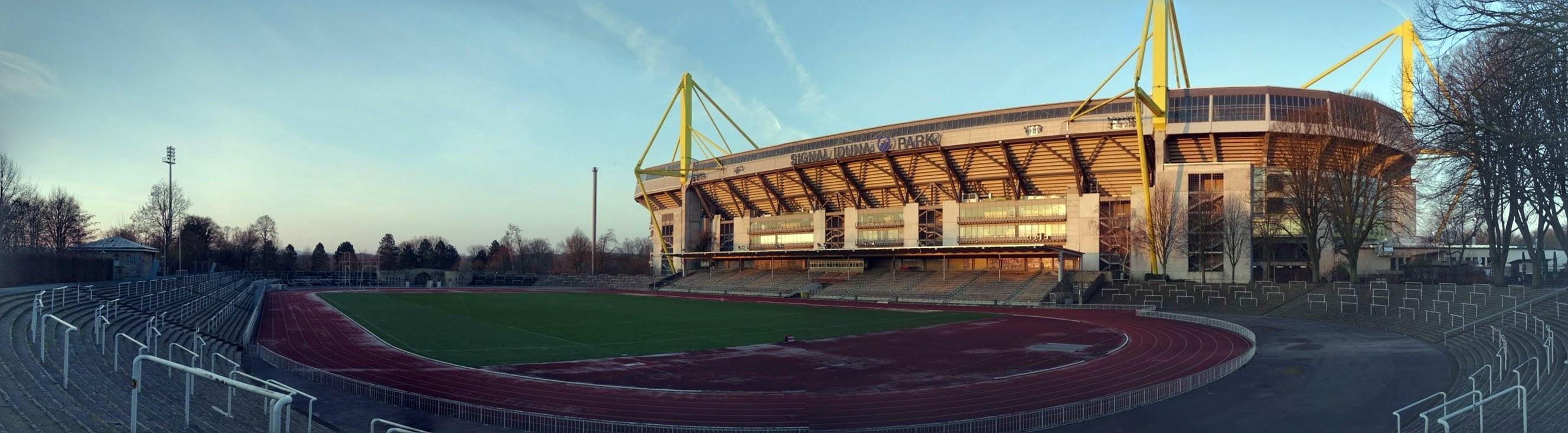 Stadion Rote Erde. Panorama.